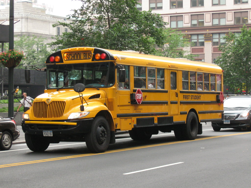 First Student #202076 in New York City on 34th Street.